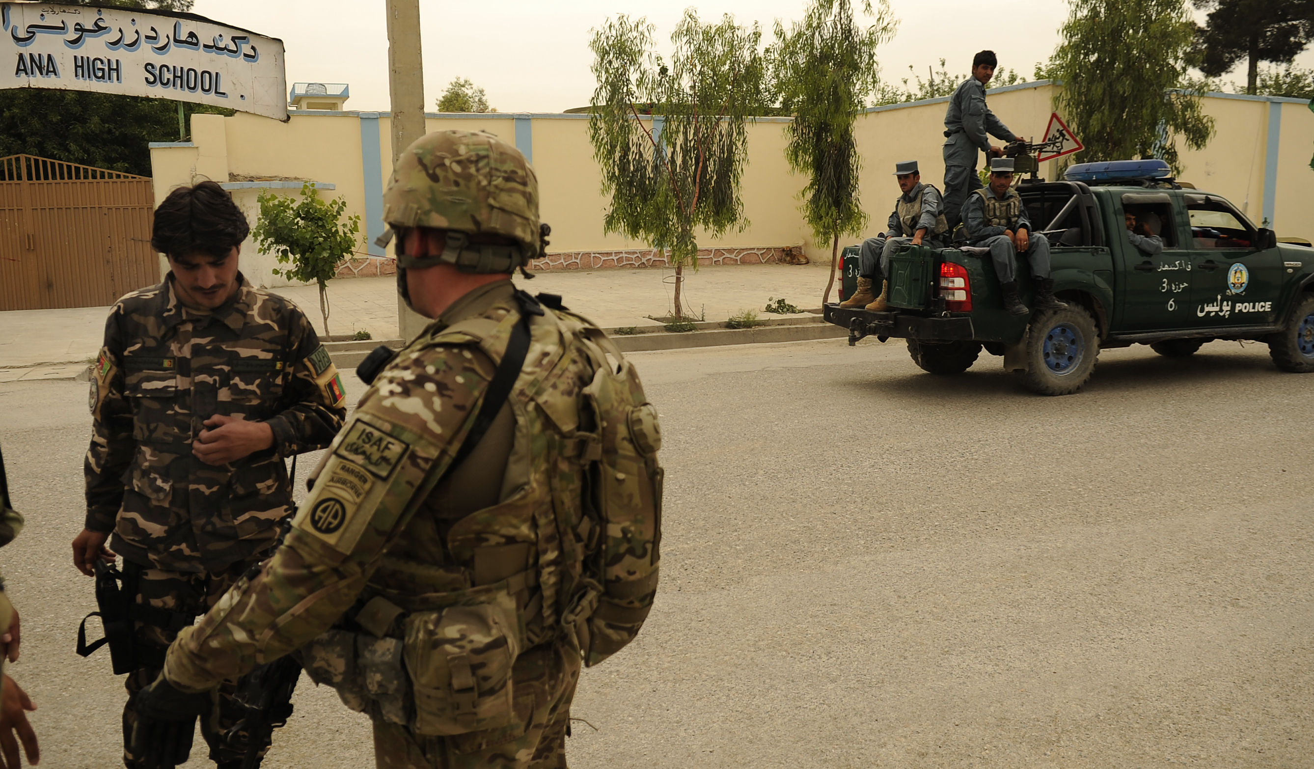 Afghan National Security Force soldiers provided security for the Kandahar Nursing and Midwifery Institute grand opening ceremony May 9, 2012 in Kandahar, Afghanistan. The Kandahar Nursing and Midwifery will be able to train up to 800 students, both male and female, a year in nursing, midwifery, pharmacy, lab and dental services. Kandahar PRT is a joint team of U.S. Air Force, Army, Navy service members and civilians deployed to the Kandahar province of Afghanistan to assist in the effort to rebuild and stabilize the local government and infrastructure. (Photo ID: 577787)